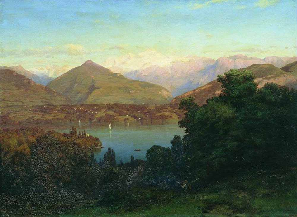 Mikhail Spiridonovich Erassi